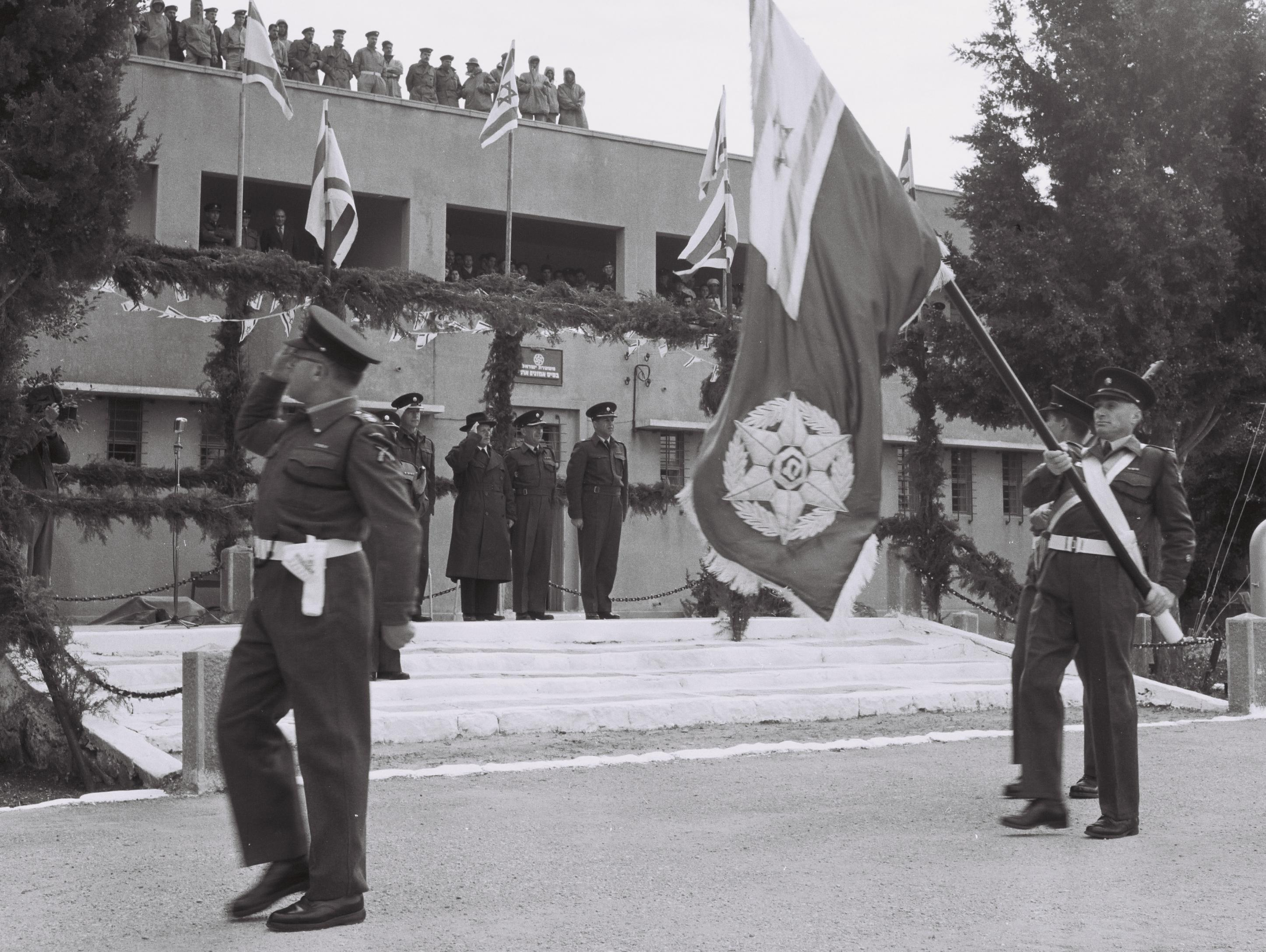 SALUTE TO THE NEW POLICE PENNANT PRESENTED AT A CEREMONY AT THE SHEFARAM POLICE TRAINING DEPOT